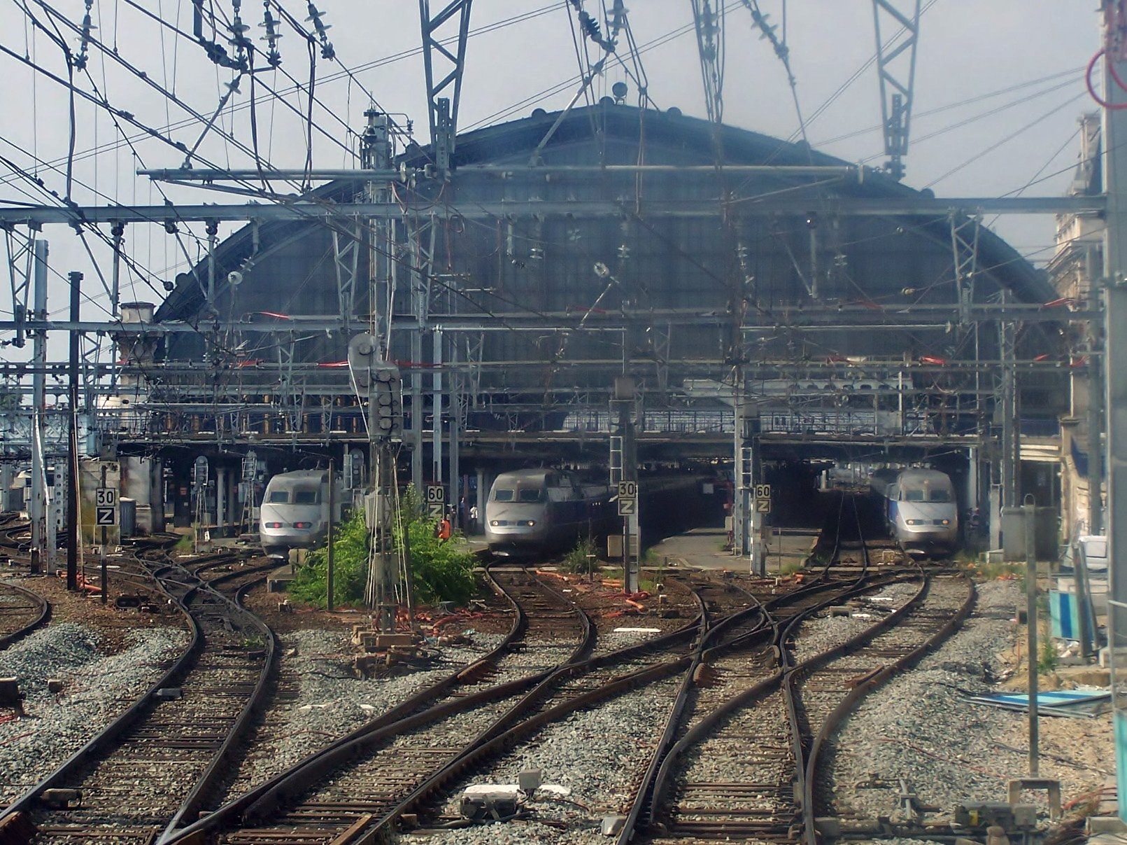 Arriving at Bordeaux-Saint-Jean railway station in Gironde, France.